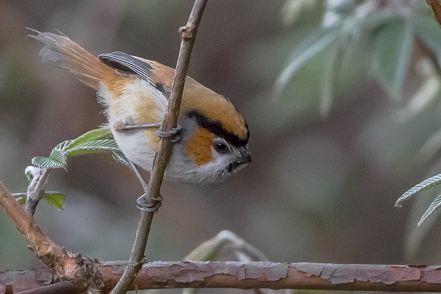 The species Black-throated Parrotbill Suthora nipalensis had been photographed at East Sikkim, India during the birding tour of GoingWild on 19.04.2015.